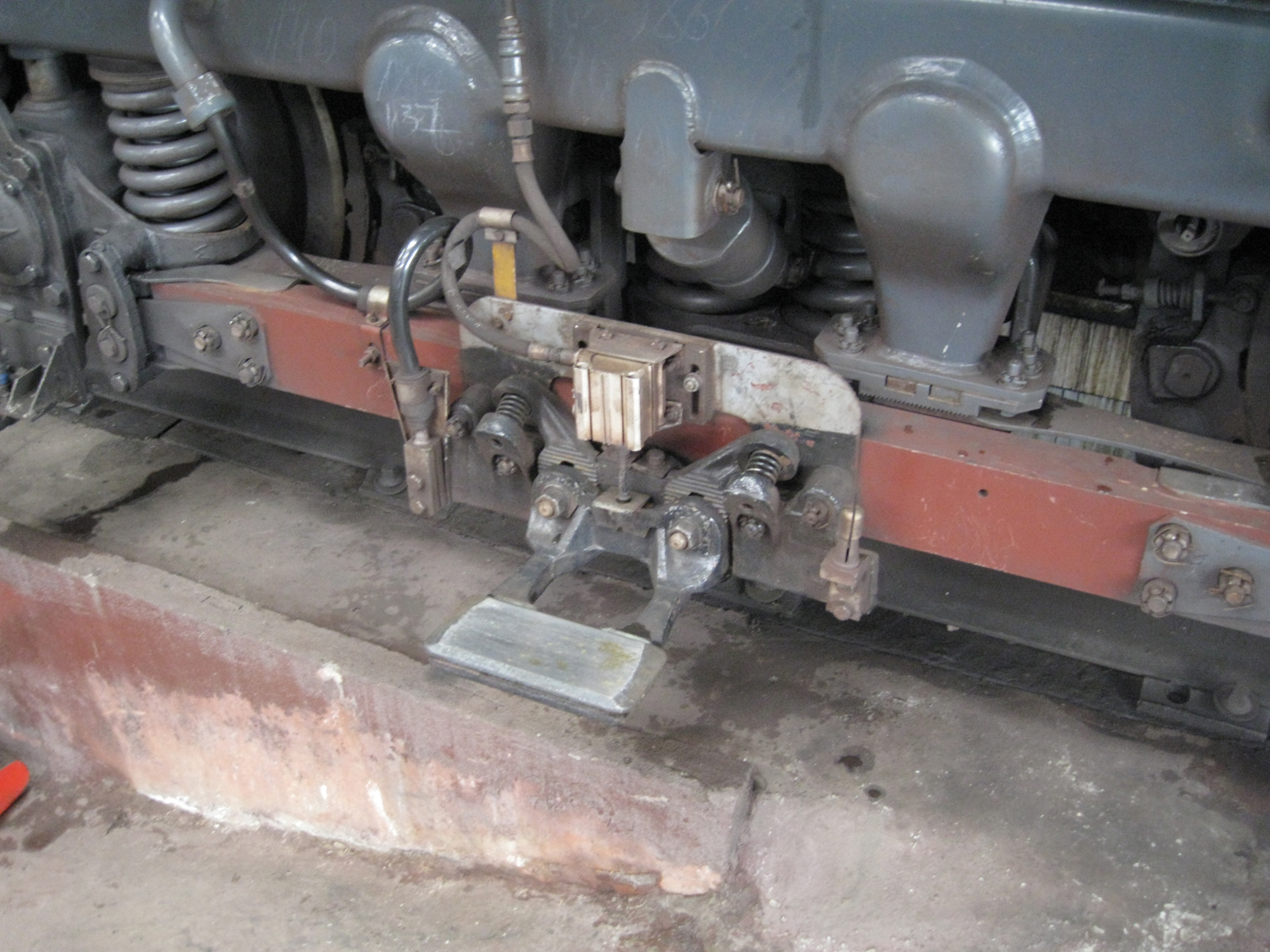 Third rail contact shoe with special squeeze mechanism.